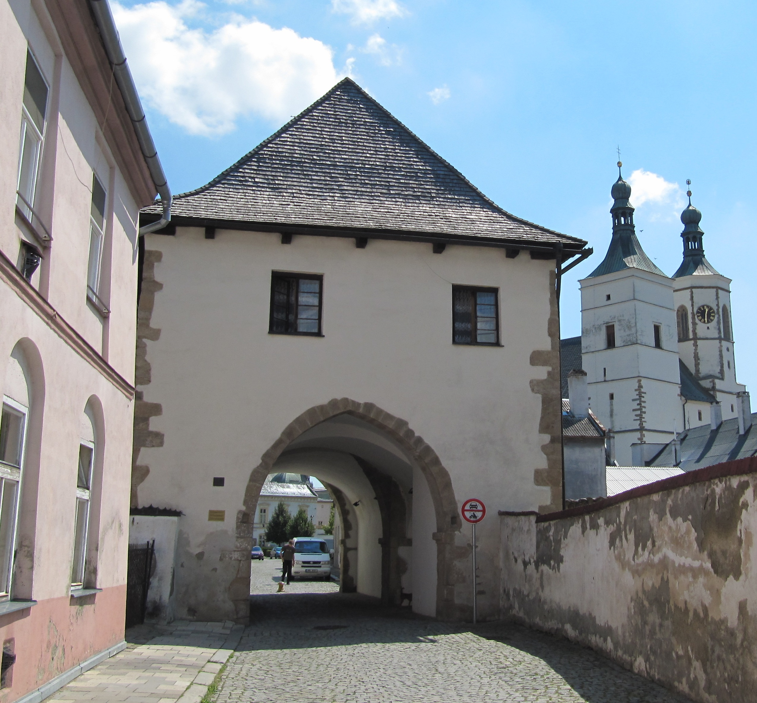 Uničov in Olomouc District, Czech Republic. Gate and church